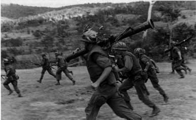 Marines from BLT 2/4 taking part in Operation Lancaster II rush across open ground with two of the troops carrying 3.5-inch rockets.